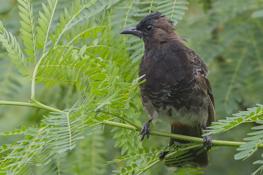 The specie shown here is a Red-vented Bulbul juvenile and it is morphing to adulthood, photographed at Kolkata Outskirt, West Bengal, India on 09.09.2014.